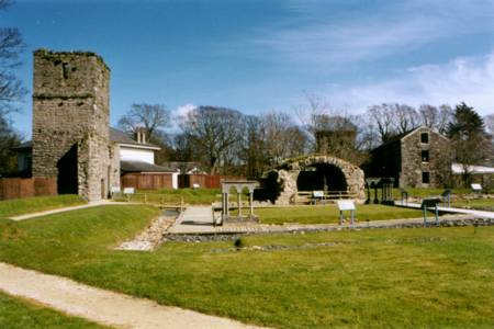 Rushen Abbey in Ballasalla, Isle of Man